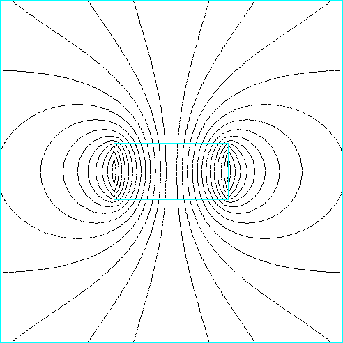 The shape of the magnetic field is correct in the vicinty of the magnet. However the field is inaccurate toward the image edges, due to a finite FEM simulation volume.